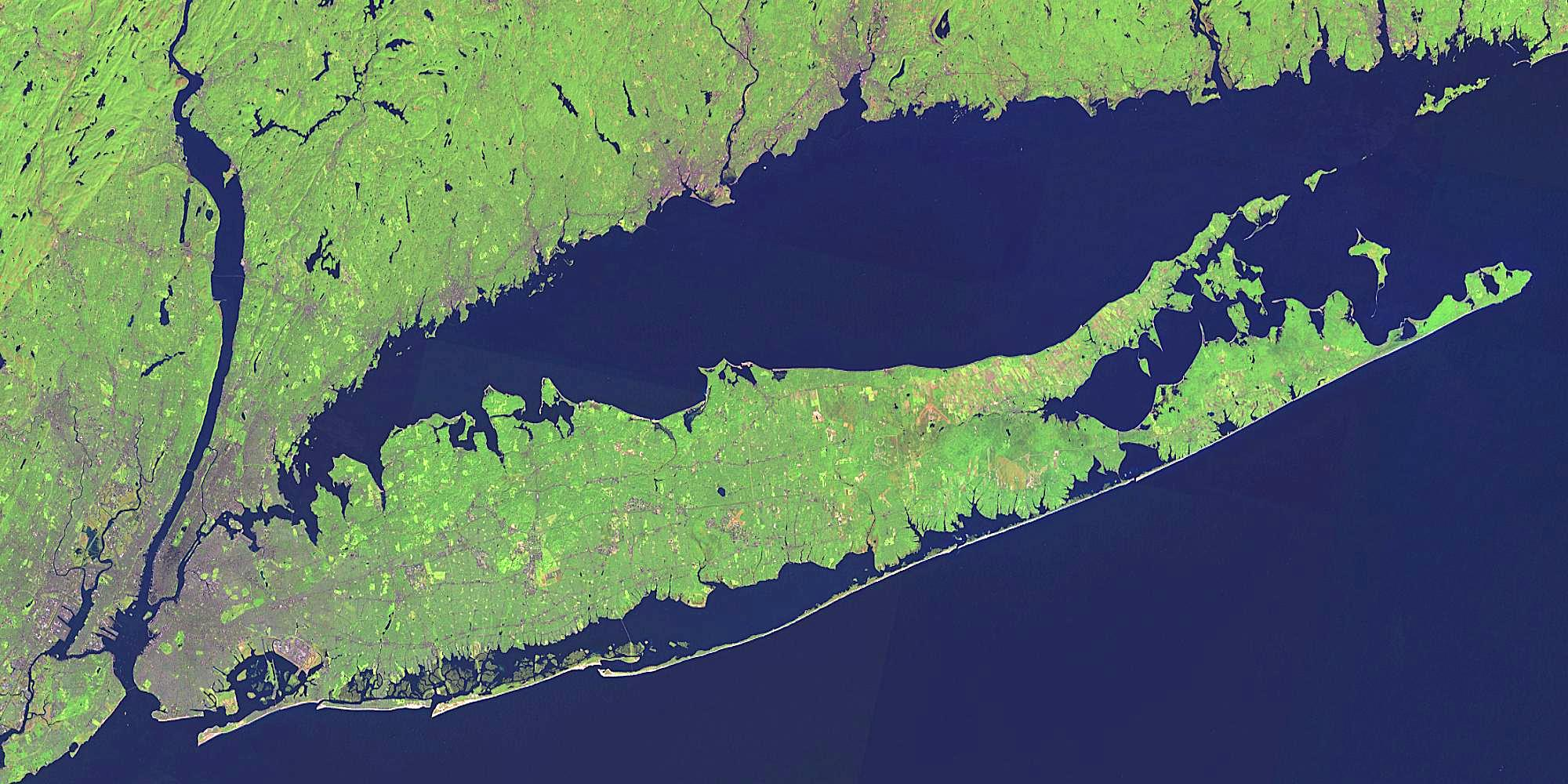 NASA Landsat satellite global mosaic image of Long Island, New York Source link: [1] (Image was color corrected.)